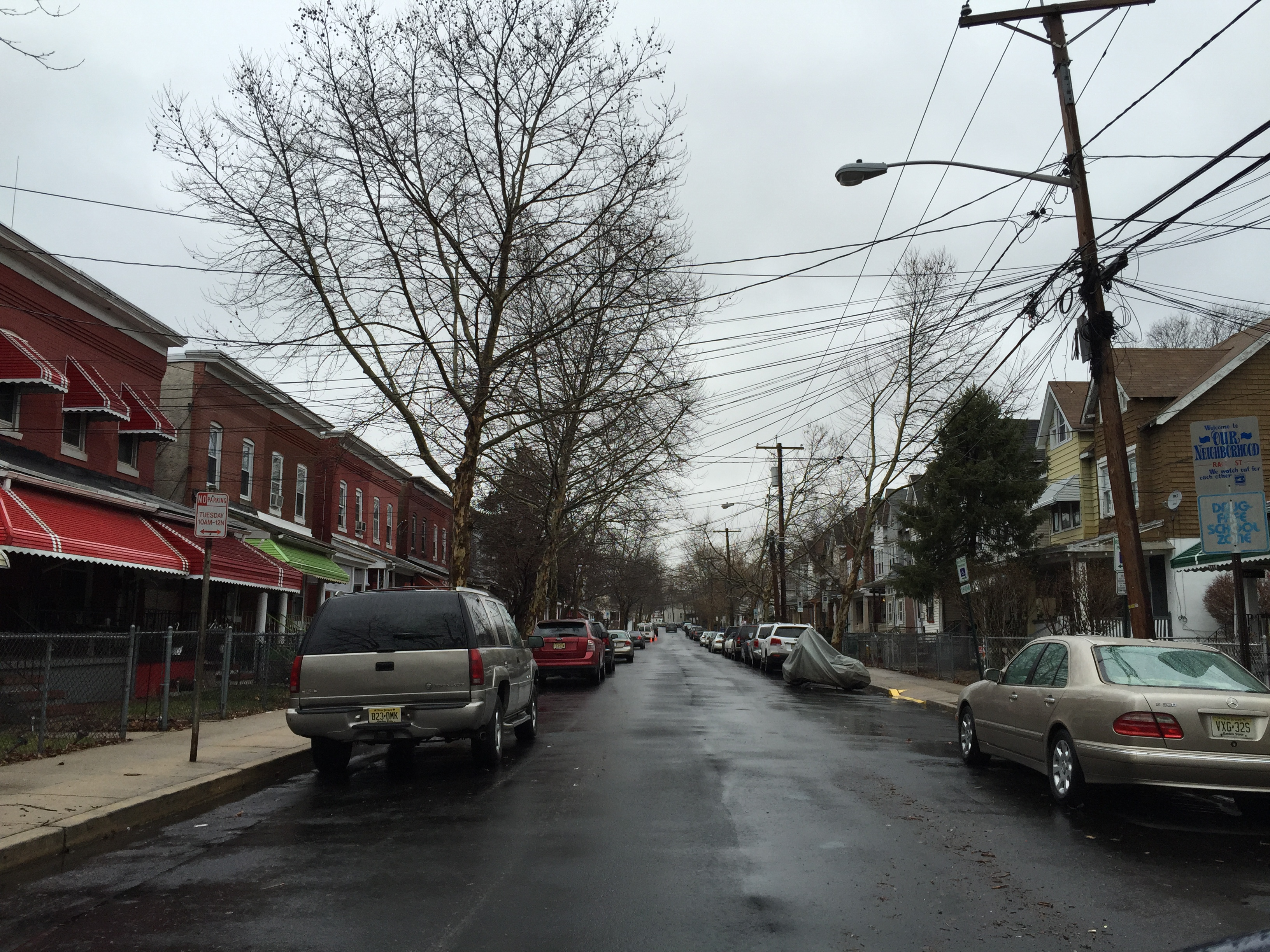 View northwest along Race Street in the North Trenton section of Trenton, New Jersey